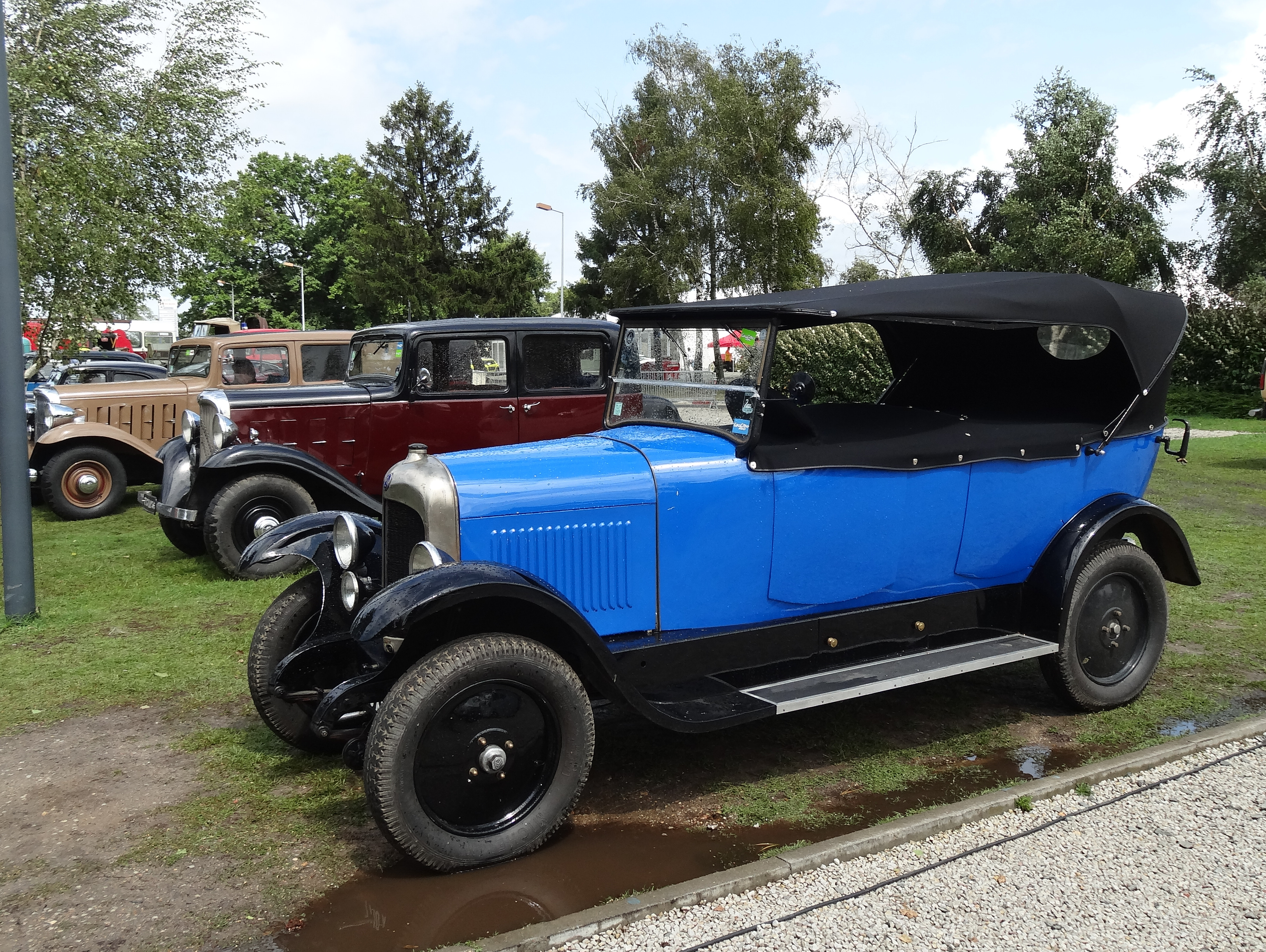 Citroën type B, EuroCitro 2014